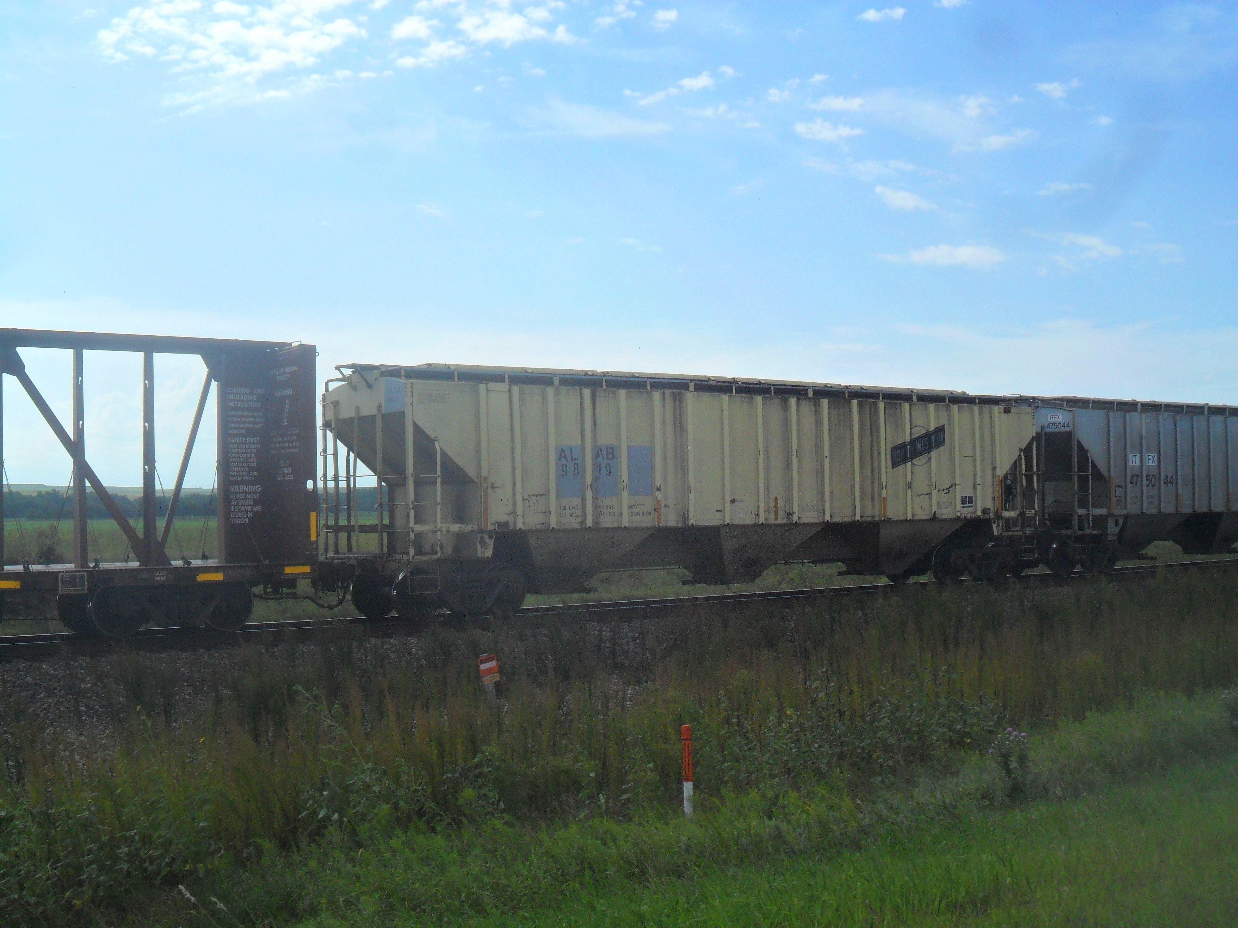 ALAB 9819 still wears its Chicago and North Western paint scheme. Seen here east of Florence, Kansas.